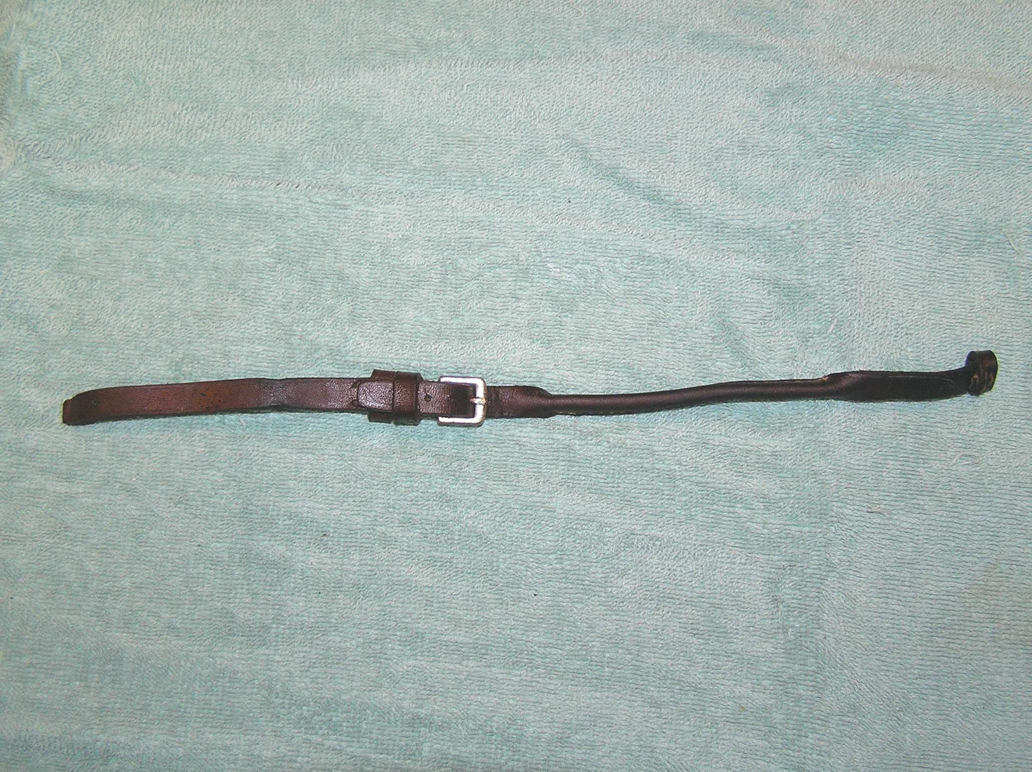 A lip strap is attached to a curb bit and helps to hold the curb chain in place as well as keeping the horse from "lipping" the bit-- grabbing the shanks of the bit with it lips